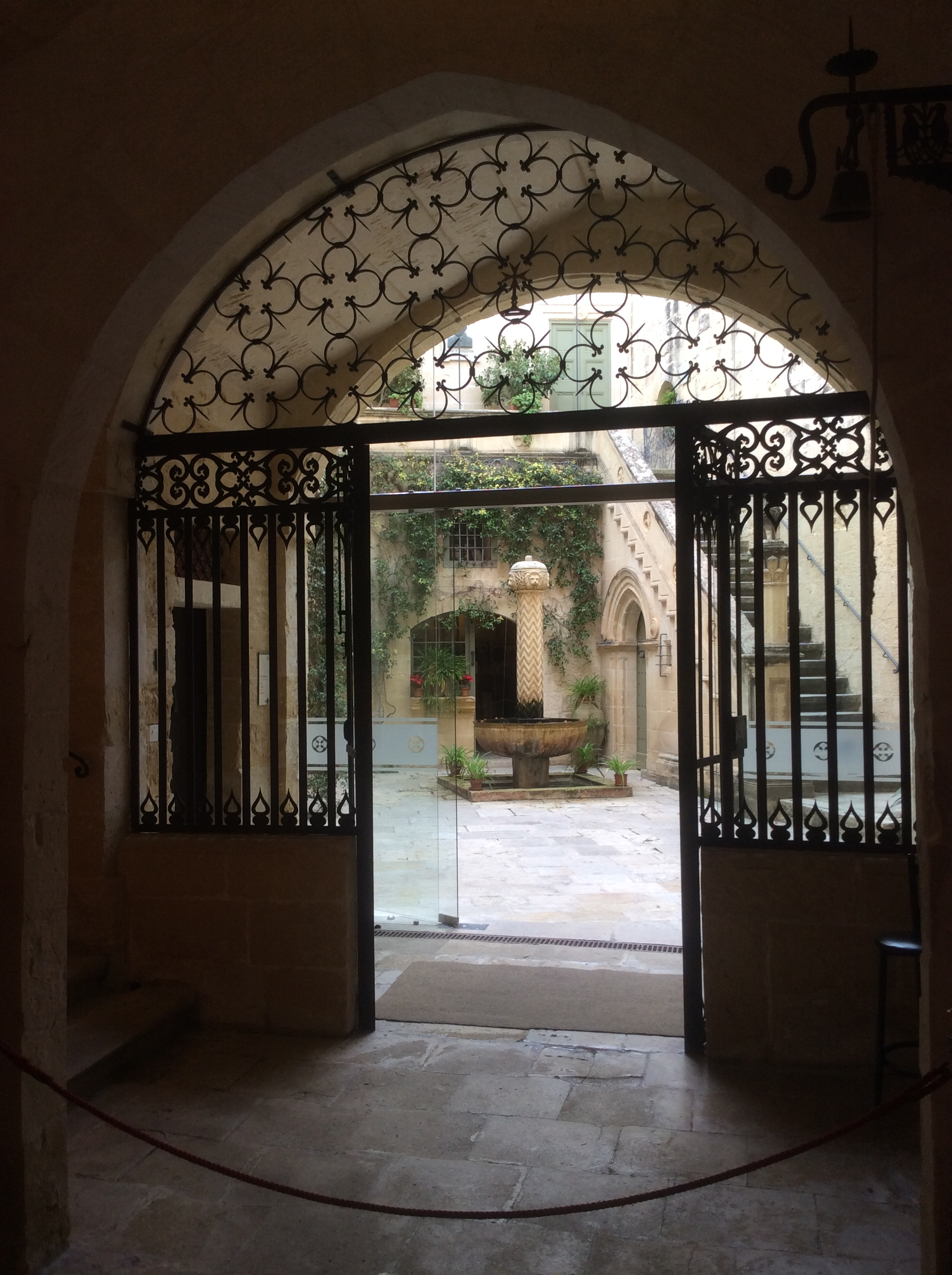 Palazzo Falzon Courtyard in Mdina